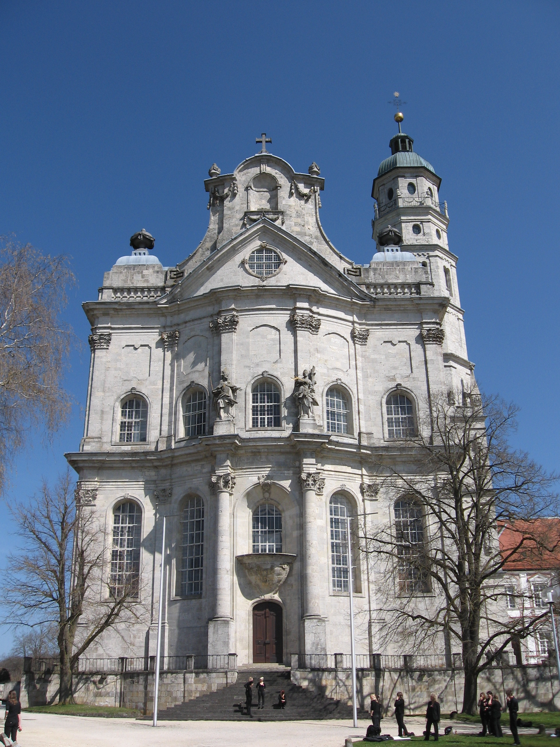 Benedictine Neresheim Abbey